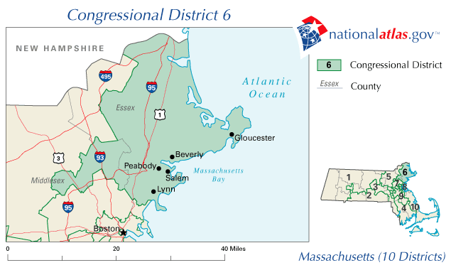 Sixth U.S. Congressional district of Massachusetts in the 109th Congress. Redistricting actually occurred for the 108th and subsequent Congresses after the United States 2000 Census.